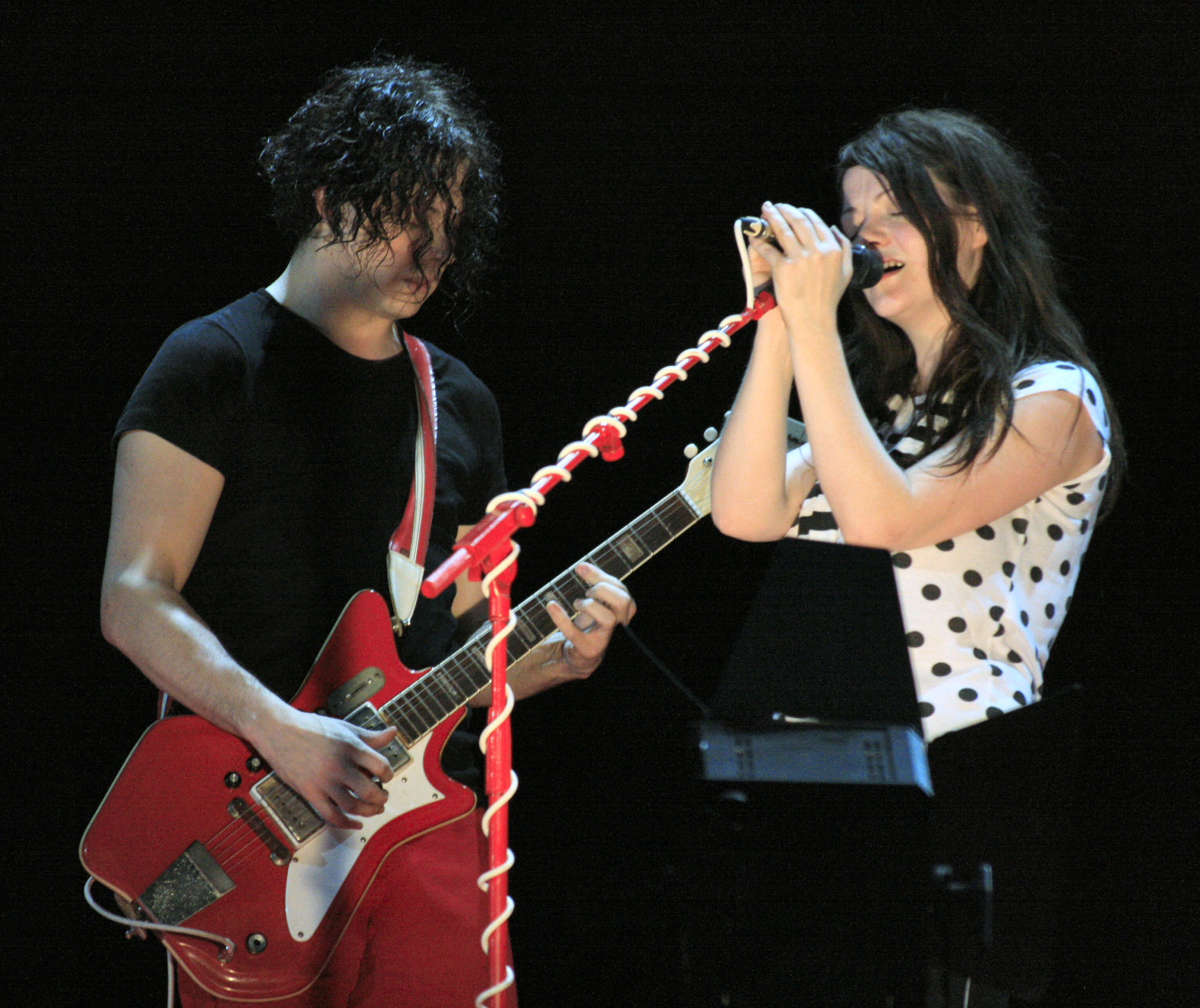 The White Stripes at the 2007 O2 Wireless festival in London